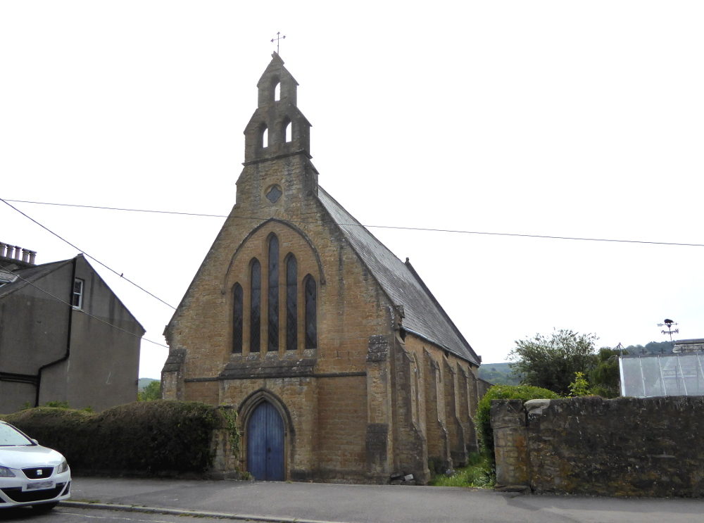 Redundant church of St Andrew's, Bridport, Dorset